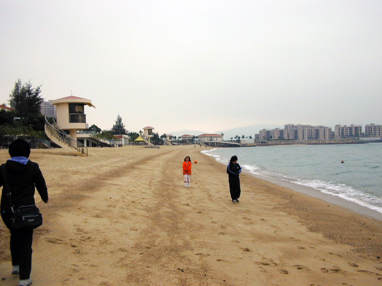 Photo of Golden Beach, Hong Kong